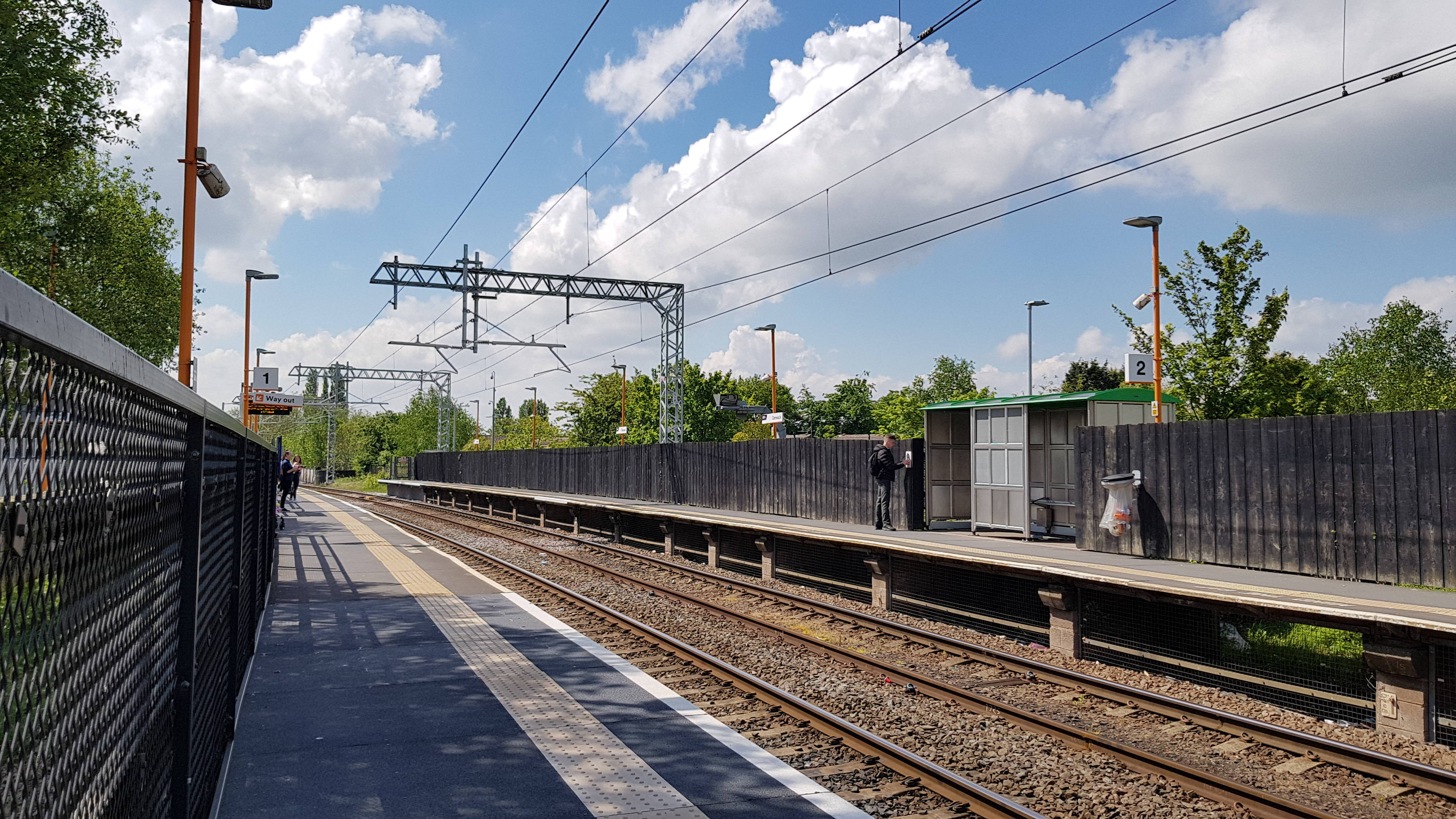 Cannock Railway Station, looking southbound - May 20th 2019